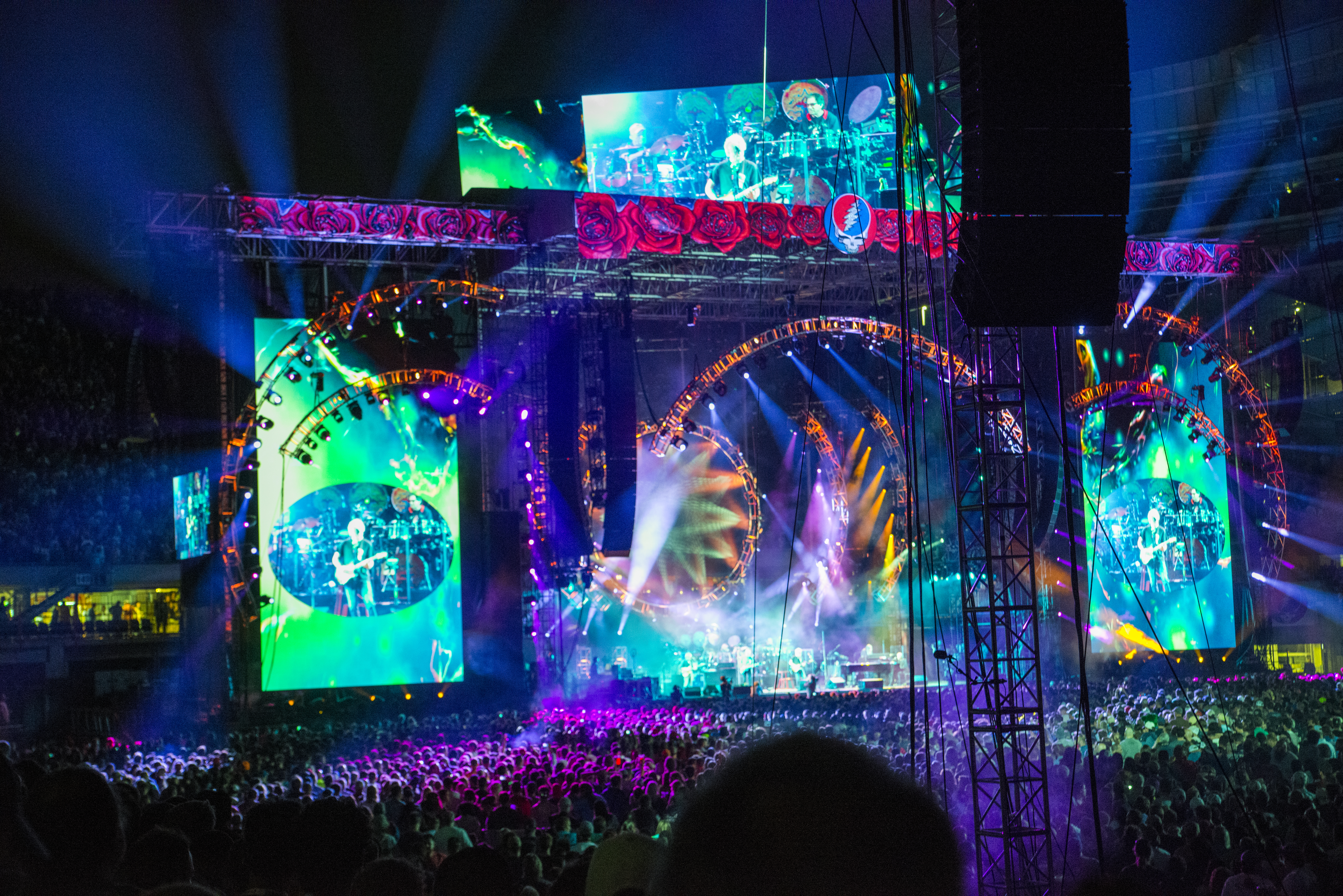 Fare Thee Well: Celebrating 50 Years of the Grateful Dead